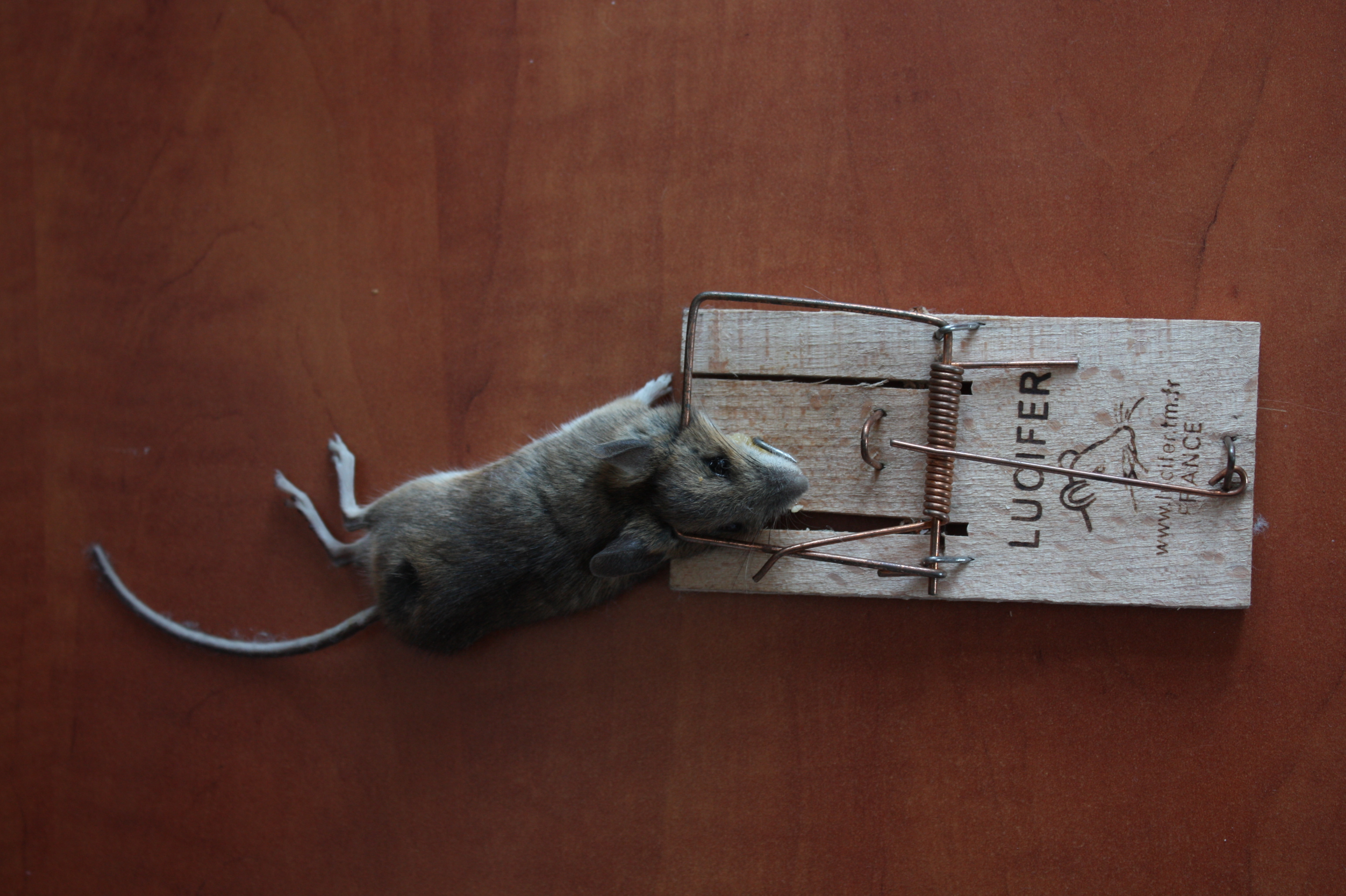 Pułapka na myszy z myszą:) Mausefalle mit der Hausmaus :)(:Mousetrap with house mouse